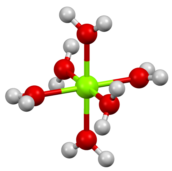 Structure of [Mg(H2O)6]2+ in the dinitrate salt